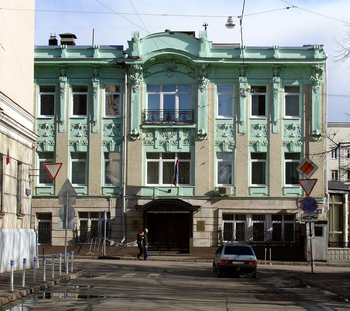 Embassy of Azerbaidzhan in Moscow (Leontyevsky lane, 16).